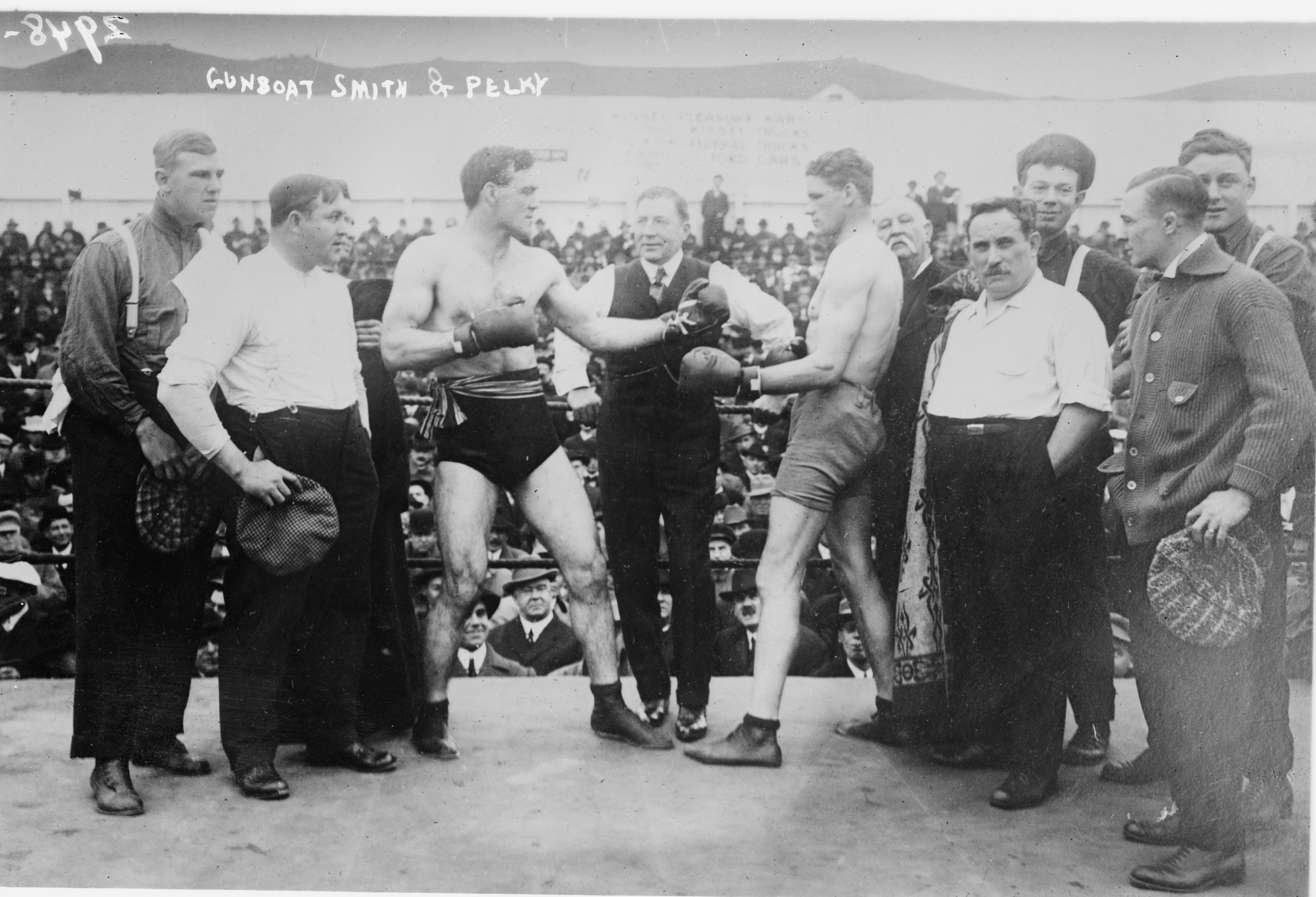 Bain News Service,, publisher. Gunboat Smith & Pelky [i.e., Pelkey] [1914 Jan. 1] 1 negative : glass ; 5 x 7 in. or smaller. Notes: Title from data provided by the Bain News Service on the negative. Photo shows boxer Arthur Pelkey with "Gunboat" Smith in San Francisco on Jan. 1, 1914. (Source: Flickr Commons project, 2010 and New York Times, Jan. 2, 1914) Forms part of: George Grantham Bain Collection (Library of Congress). Format: Glass negatives. Repository: Library of Congress, Prints and Photographs Division, Washington, D.C. 20540 USA, General information about the Bain Collection is available at Higher resolution image is available (Persistent URL): Call Number: LC-B2- 2948-3